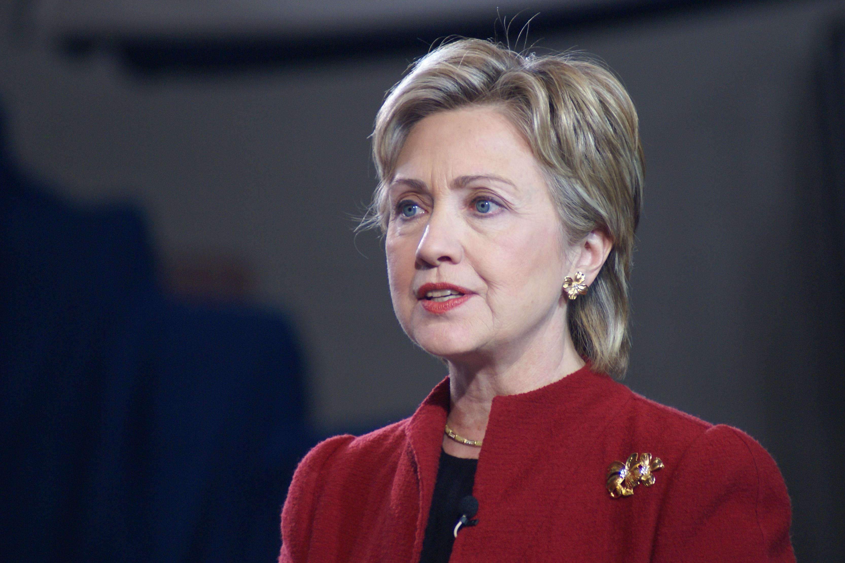 Hillary Clinton in Hampton, NH